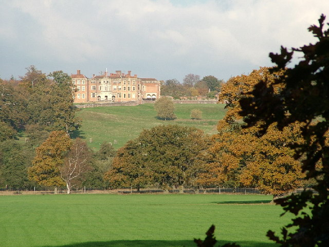 Bramshill House. Bramshill Police College, from the south